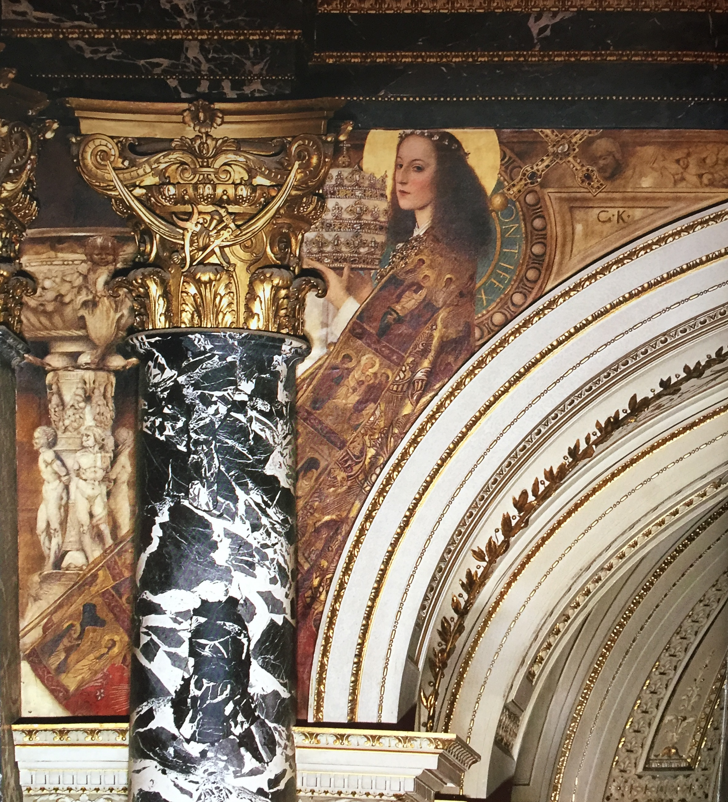 Gustav Klimt: The Quattrocento in Rome (Ceiling above the grand staircase, Kunsthistorisches Museum, Vienna)